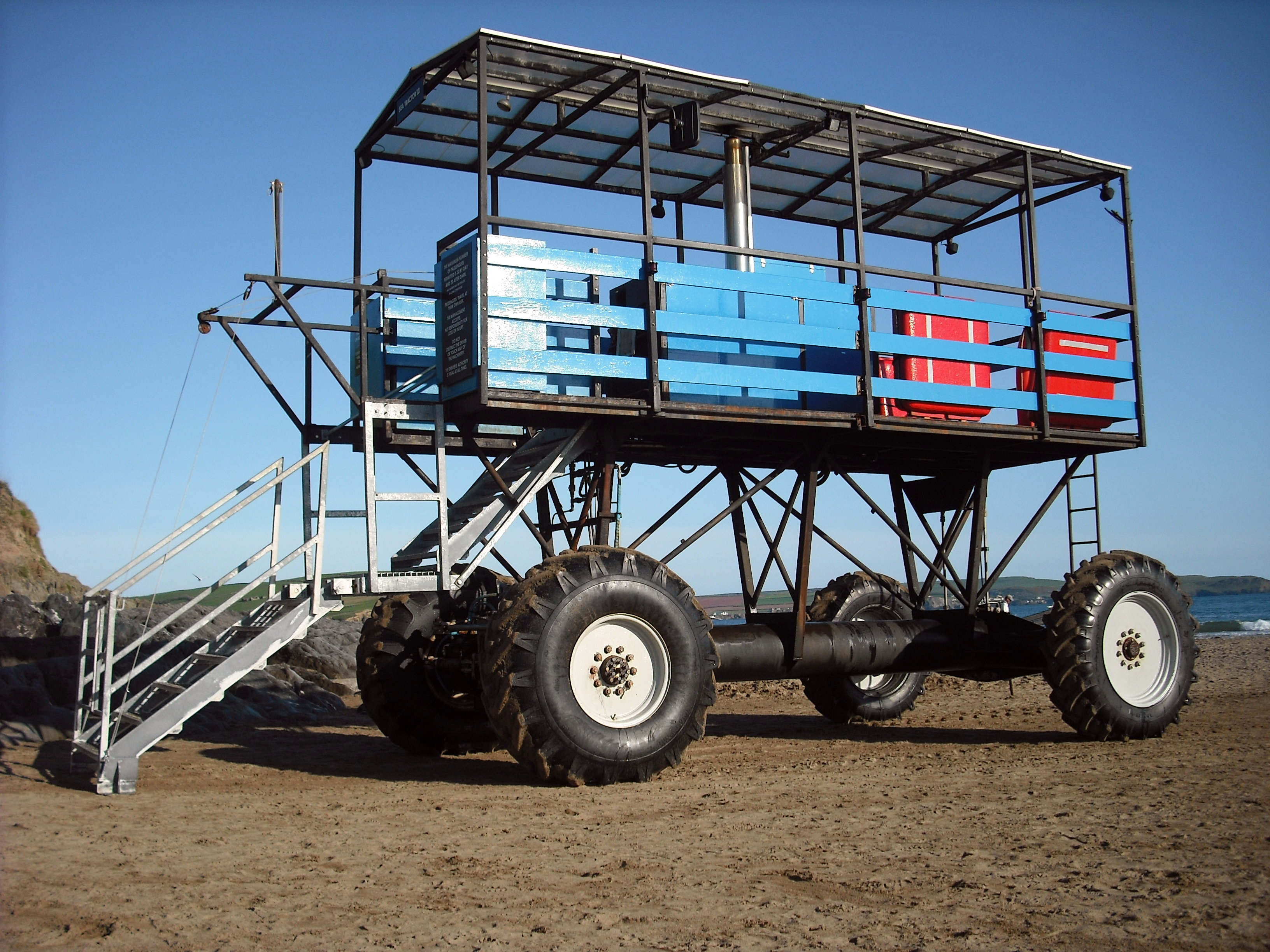 Photograph of the sea tractor that is used to ferry passengers between Bigbury-on-Sea and Burgh Island during high tide.